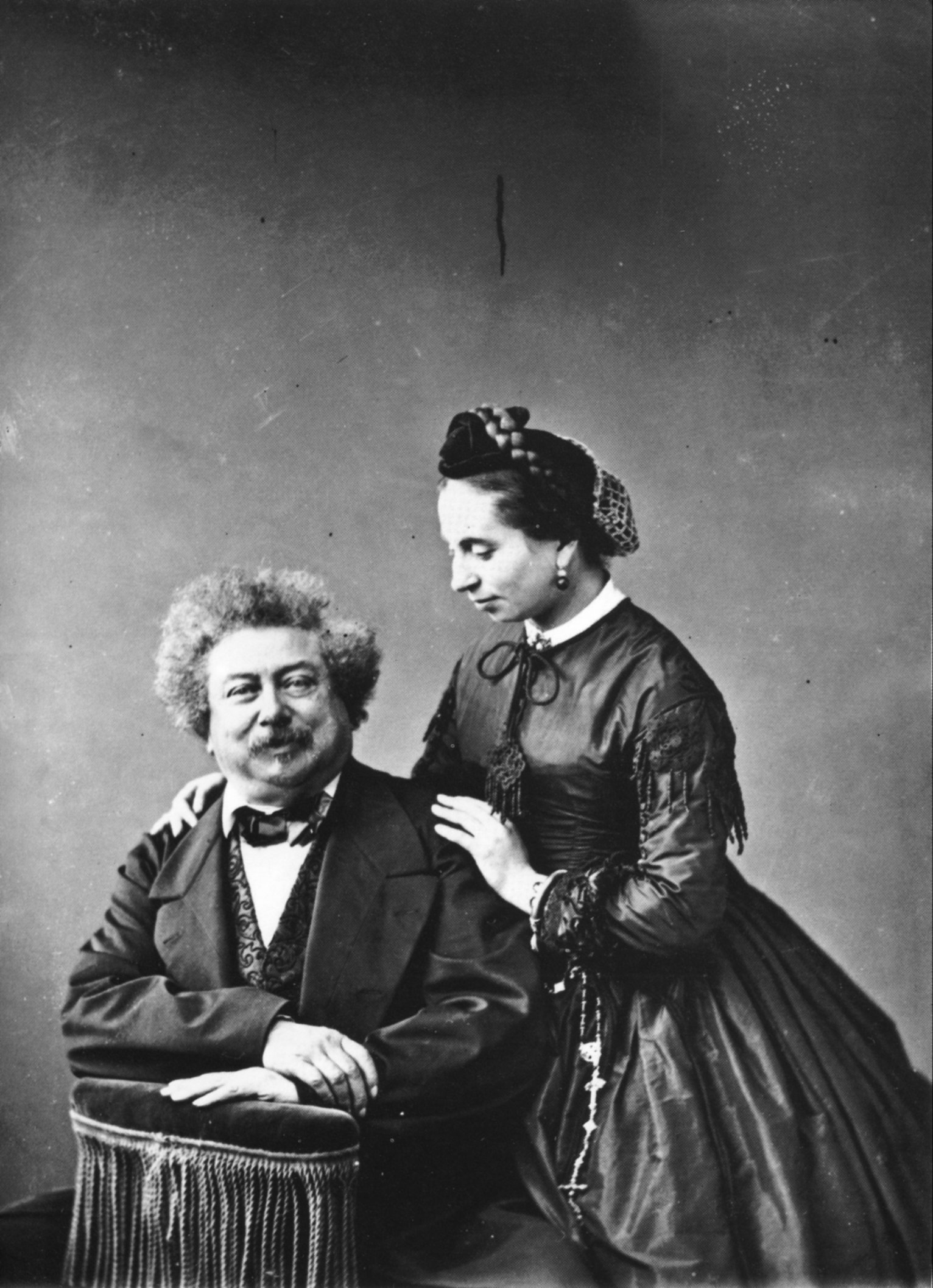 Photography of Alexandre Dumas by Félix Nadar